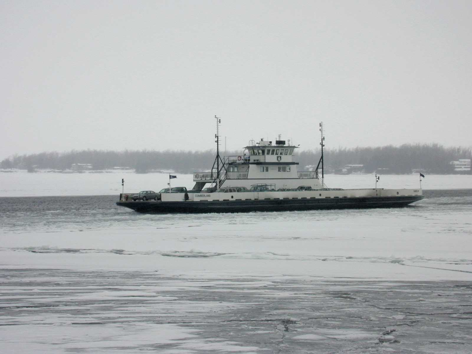 The Cumberland, one of the ferries of the Lake Champlain Transportation Company, as it breaks ice during the winter.